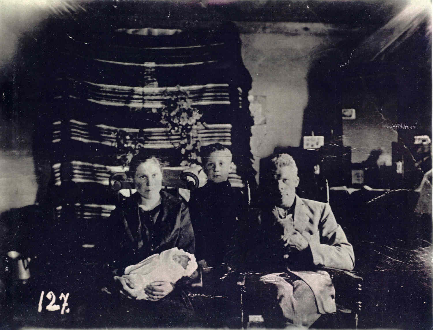 The family Hautamäki in the village Villuri, Lappfjärd parish, Finland, autumn 1928